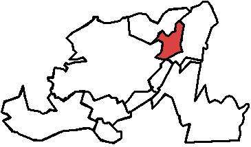 Maps based on images by Earl Warren, from the 2007 elections